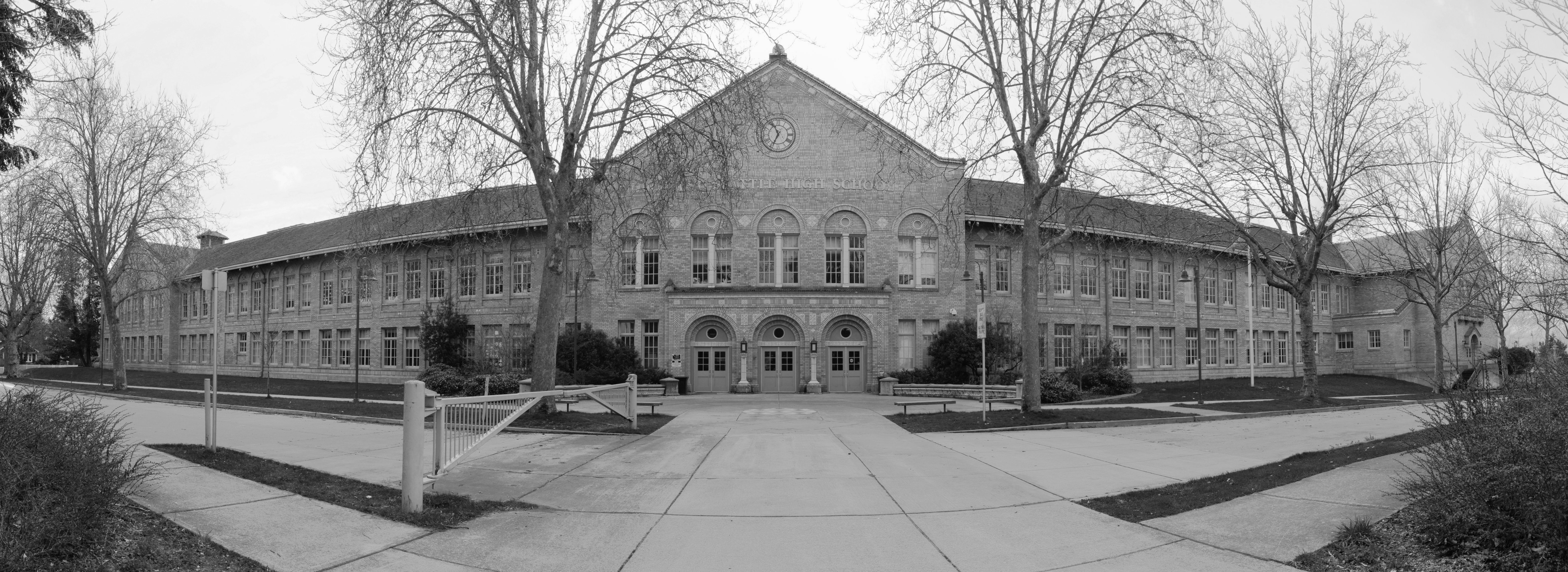 Panoramic view of West Seattle High School, Seattle, Washington. This image was created with Hugin Created with Hugin, foreground slightly cleaned up with GIMP